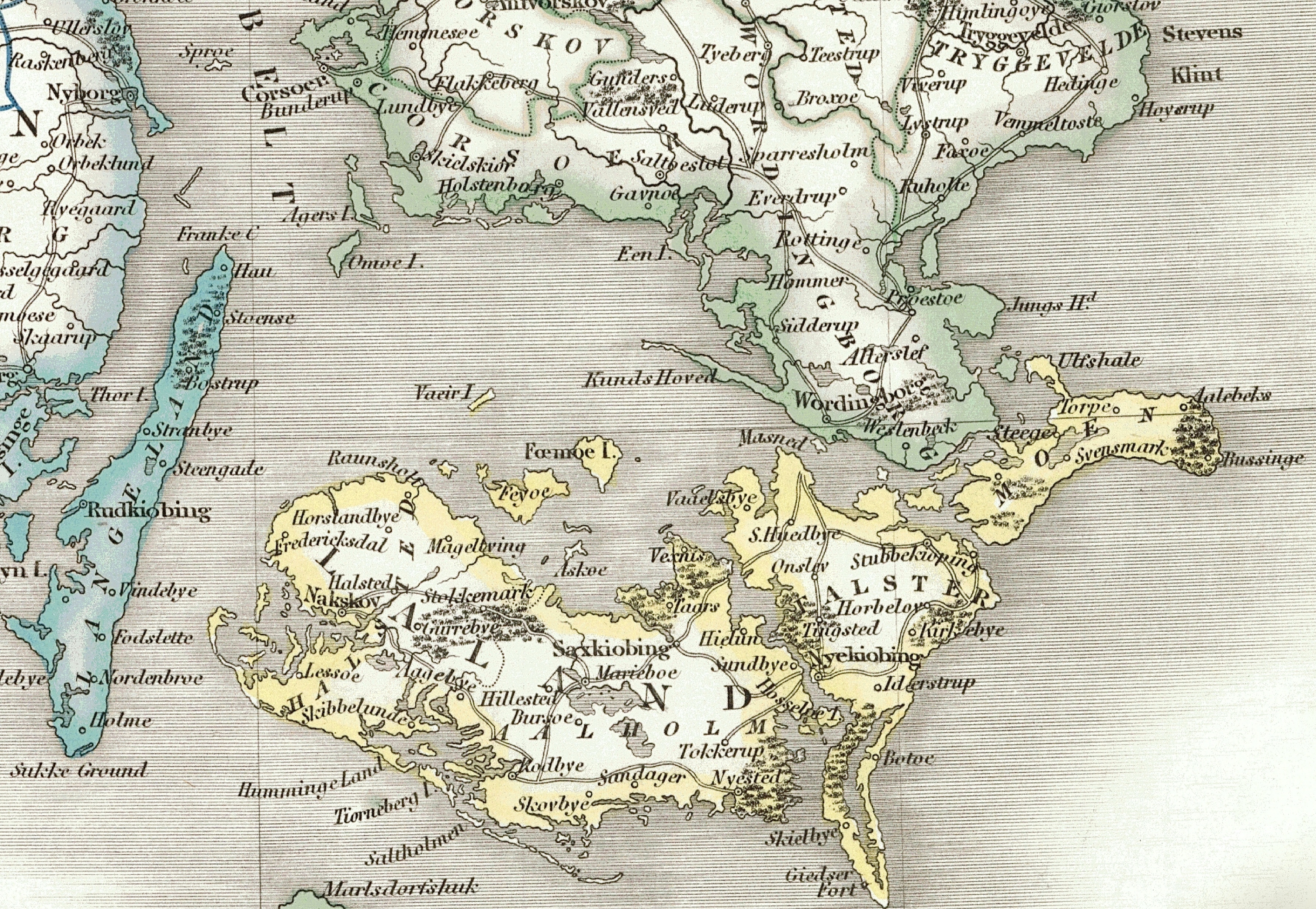 Sidney Hall: Denmark. Published by Longman, Rees, Orme, Brown & Green, London 1830. Detail.